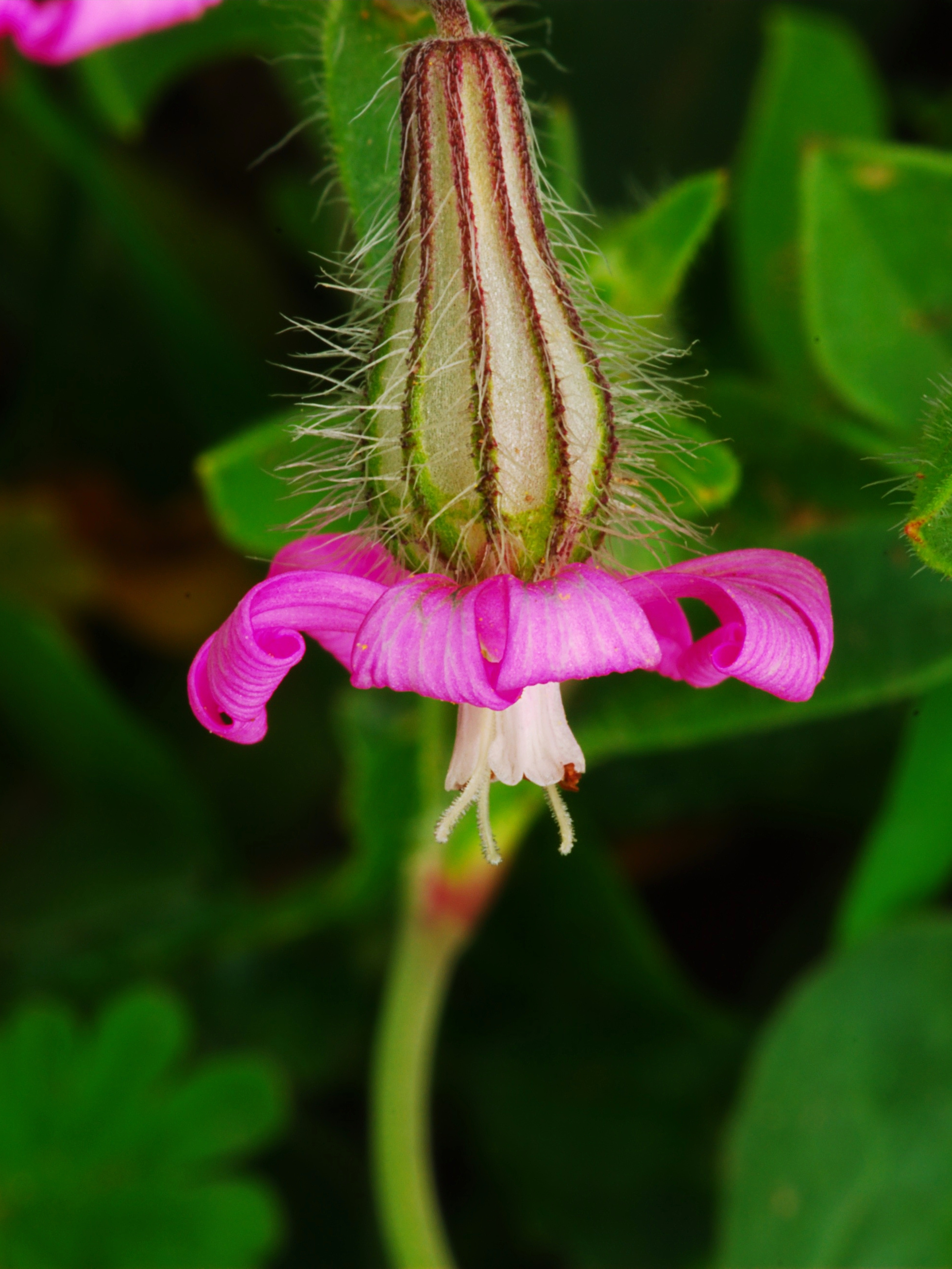 Silene colorata, Monfragüe, Extremadura, Spain.